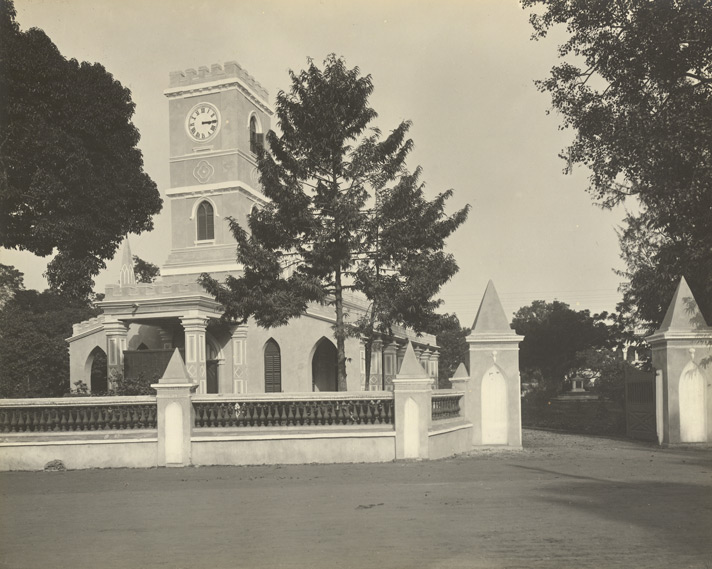 Photograph taken by Fritz Kapp in 1904 of St Thomas' Church in Dacca (now Dhaka), part of an album of 30 prints from the Curzon Collection. Built in 1819, the church is now called the Church of Bangladesh.